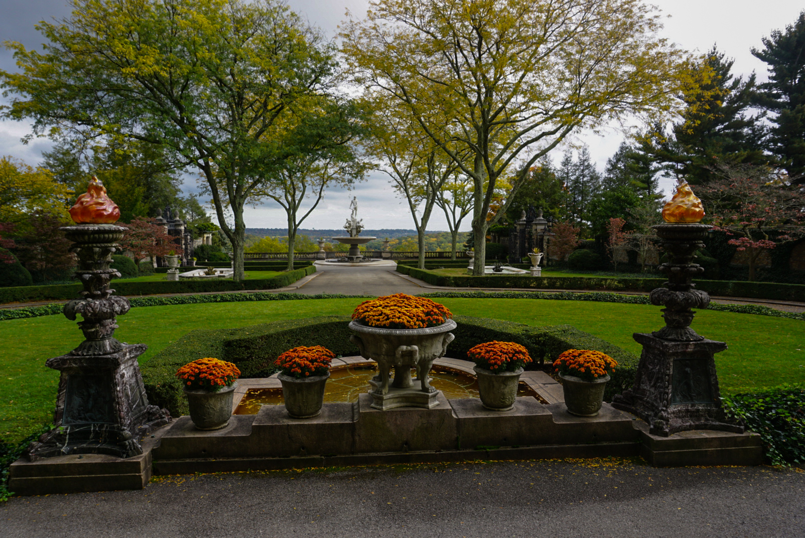 Went back to Kykuit in Mount Pleasant on October 23. I have more photos but it seems the cat already has tons of ok ones.